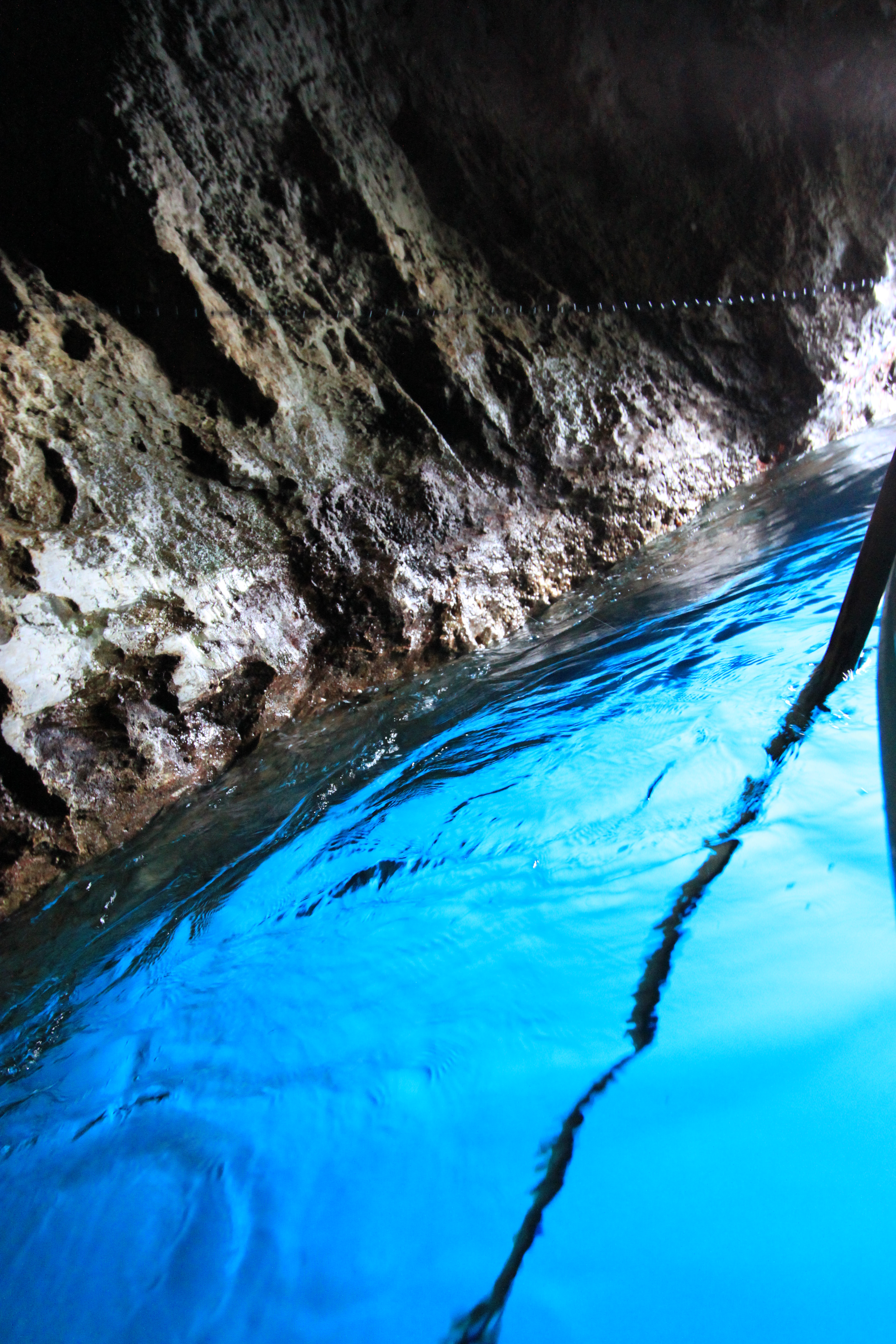 Near the entrance of the Blue Grotto at Capri, Italy